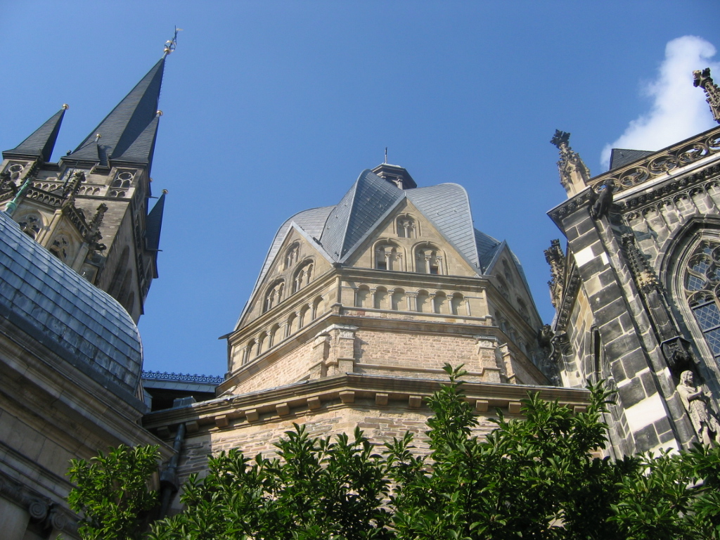 Aachen I took this picture on September 2006